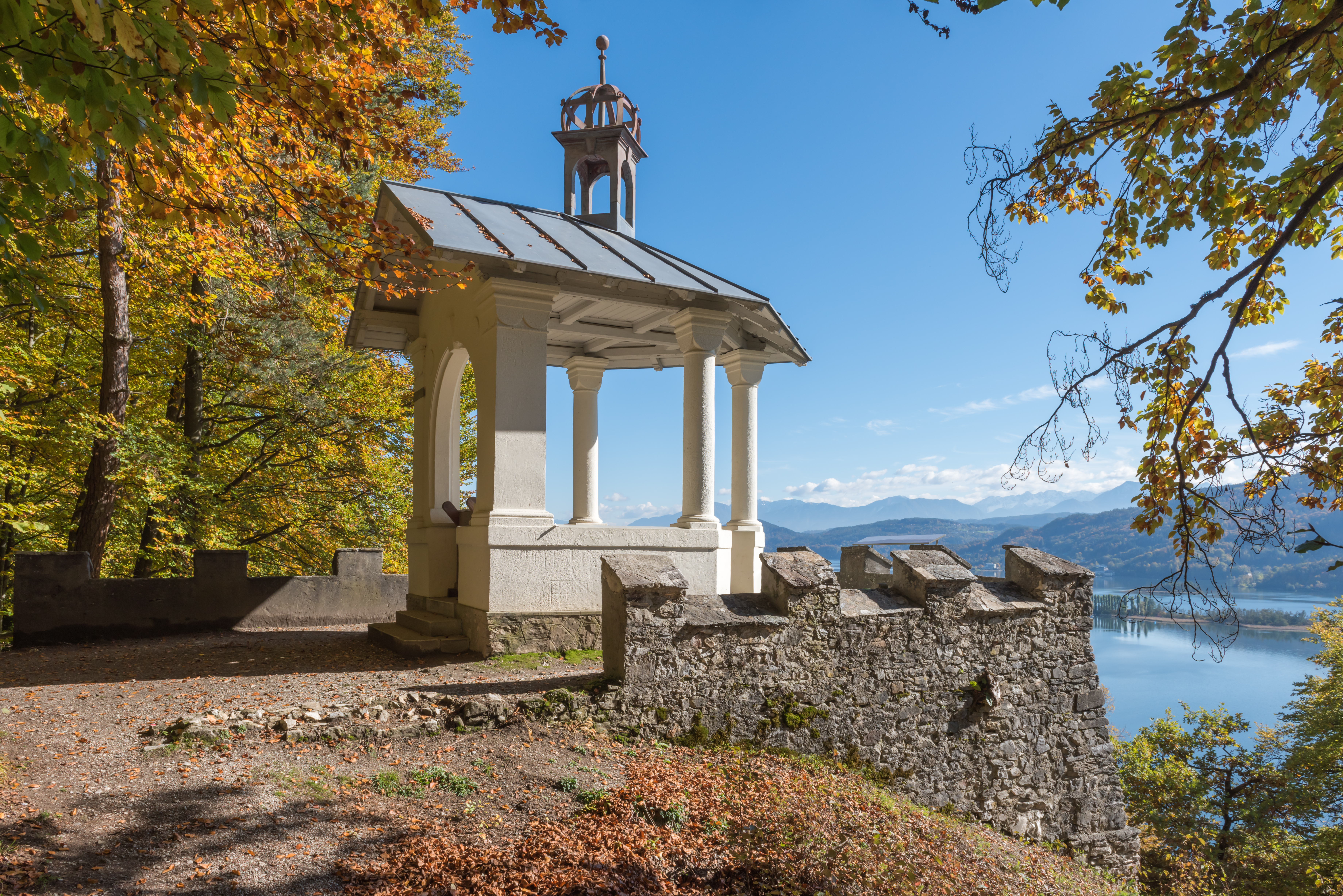 Gazebo "High Gloriette" on Glorietteweg, municipality Pörtschach am Wörther See, district Klagenfurt Land, Carinthia, Austria, EU